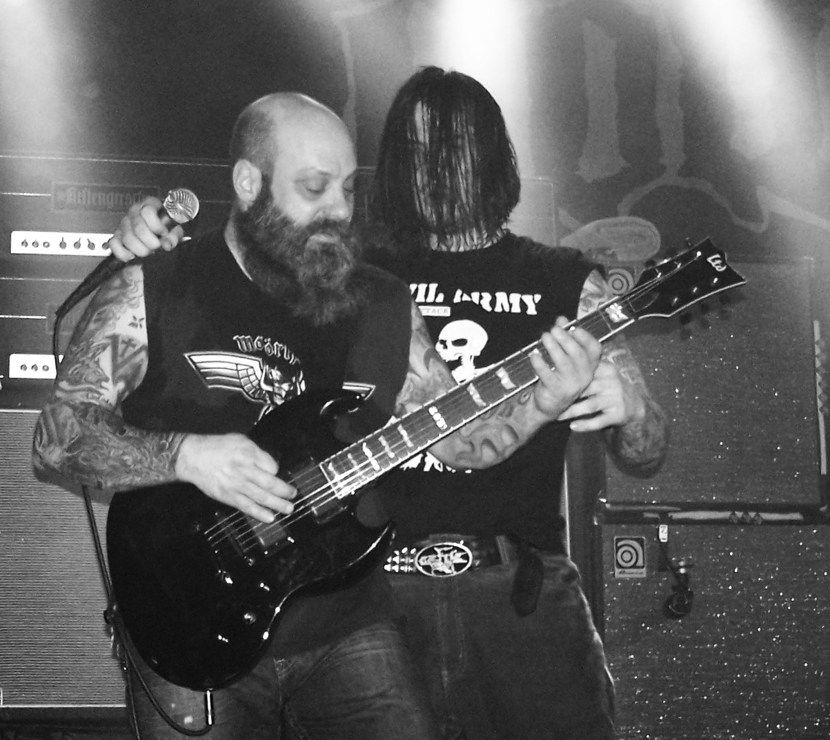 Down concert in Prague, 2008. 03. 28.